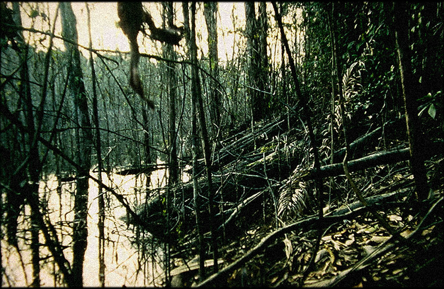 Photo made in the Sinnamary river basin on the Kursibo river (or Courcibo), in french Guiana, at the end of the rise of the waters induced by the dam EDF de Petit saut, December 1995. All the trees drowned by the dam had a root system and a metabolism not adapted to immersion ; they have lost all their leaves in a few months and have drowned, producing for some years the ghost forest or gray forest ; only a few epiphytic plants resistant to the sun have survived on the trees